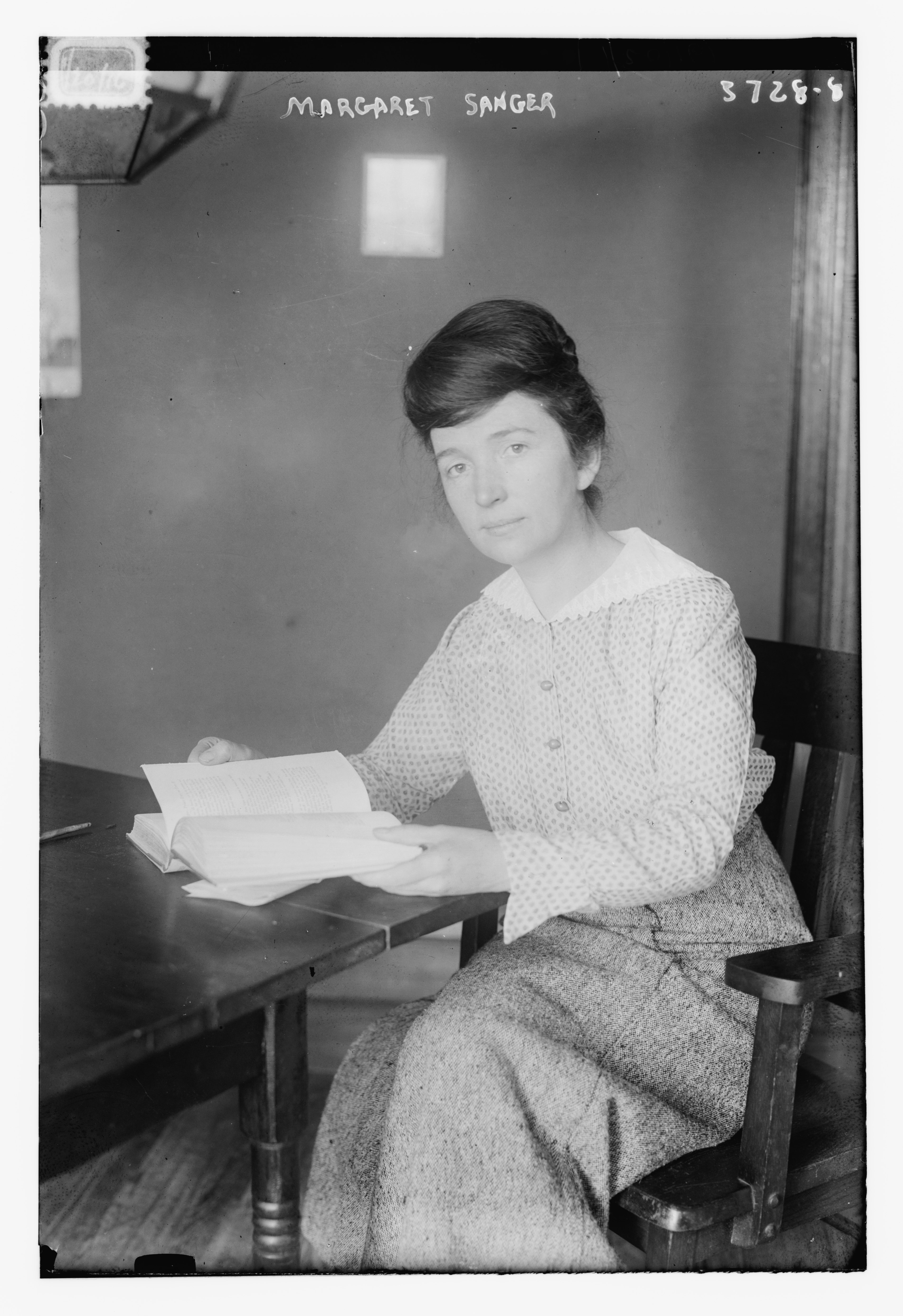 Title: Margaret Sanger Abstract/medium: 1 negative : glass ; 5 x 7 in. or smaller.